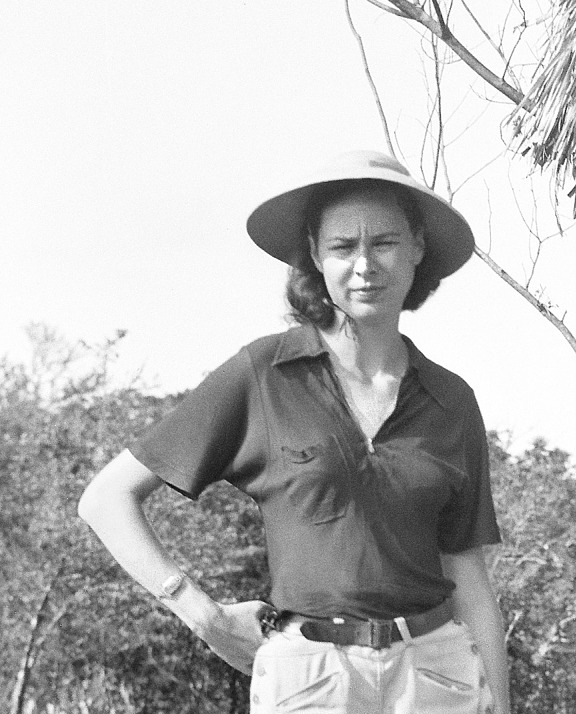 Marion Stirling, dressed in field clothes, in Boca San Miguel, Veracruz, Mexico, on 15 April 1939. Extract from a photograph taken by Alexander Wetmore during a visit to the Stirlings' archaeological expedition to Mexico and held in the Smithsonian Institution Archives.